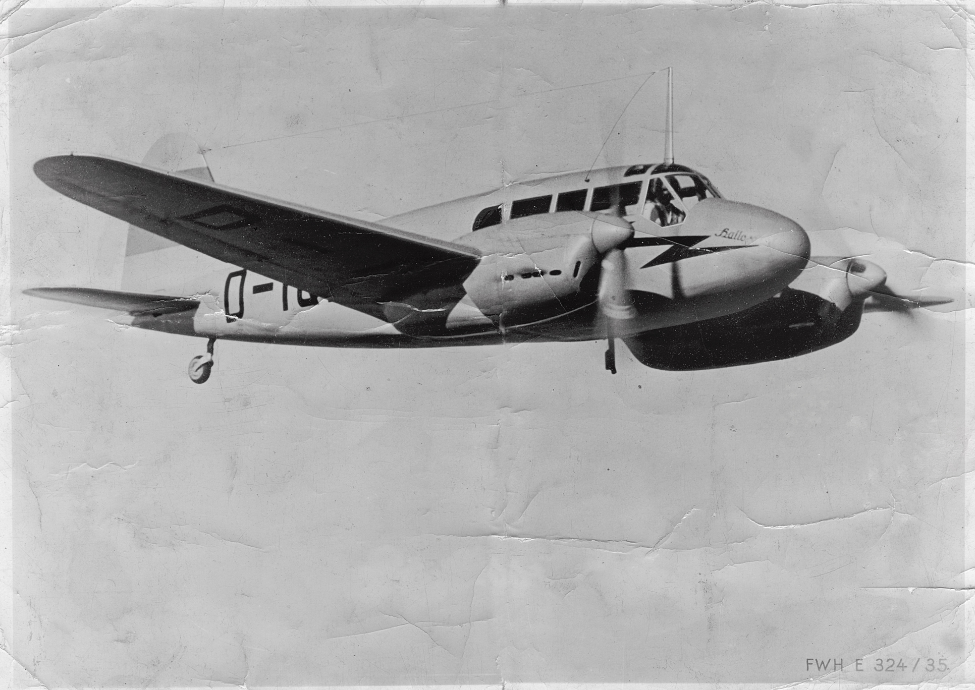 Siebel Fh 104 "Hallore" with registration code D-IQPG, built in Halle, Germany in the 1930´s